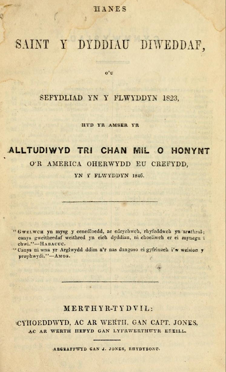 First page of the first issue of the Prophwyd y Jubili of The Church of Jesus Christ of Latter-day Saints. Published in Rhydybont, Carmarthenshire, Wales. July, 1846.